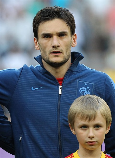 Hugo Lloris before UEFA Euro 2012 match between France and England played in Donetsk at Donbas Arena. Final result was 1:1 (Nasri, Lescott).